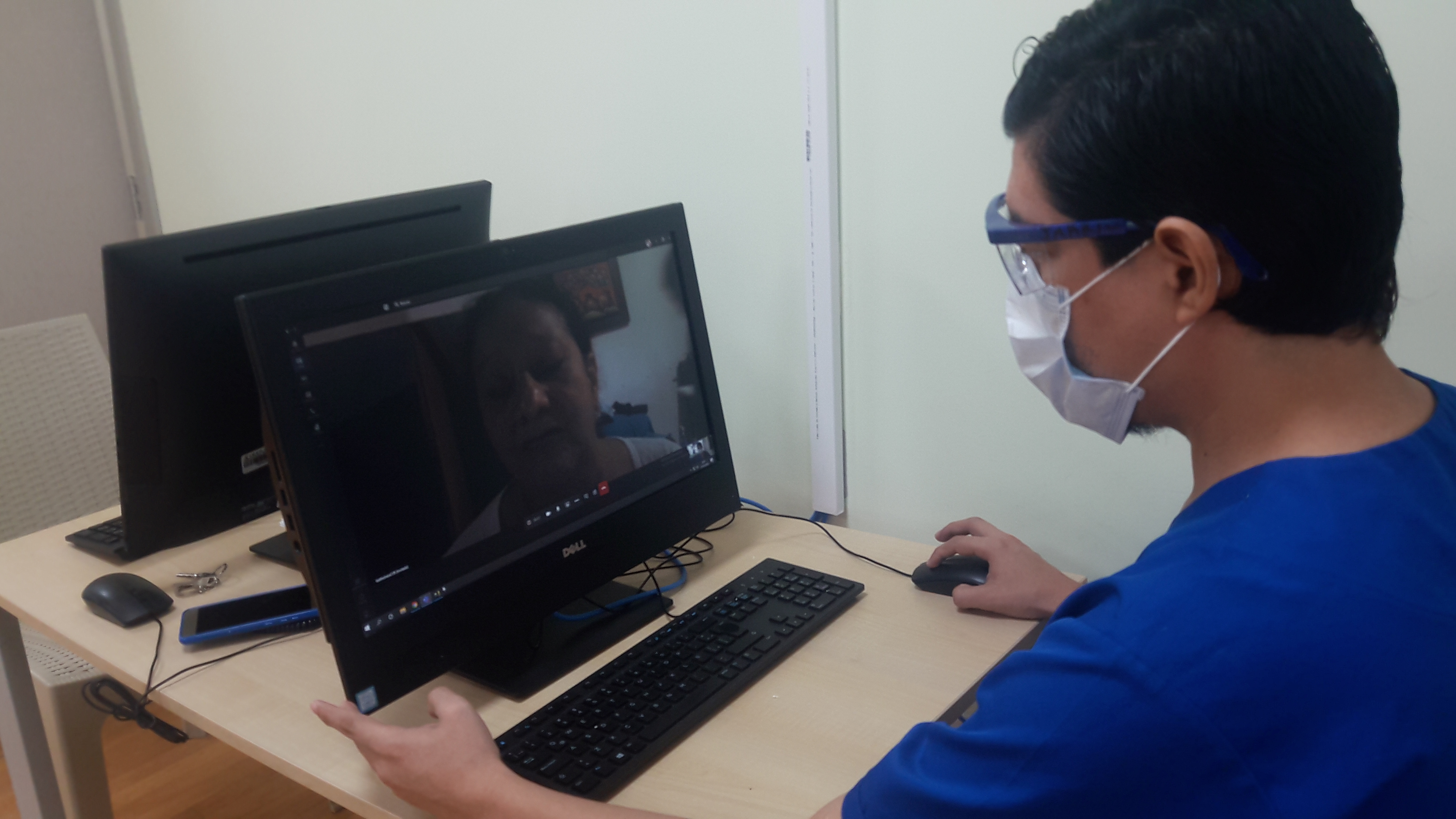 Doctor attending by teleconsultation